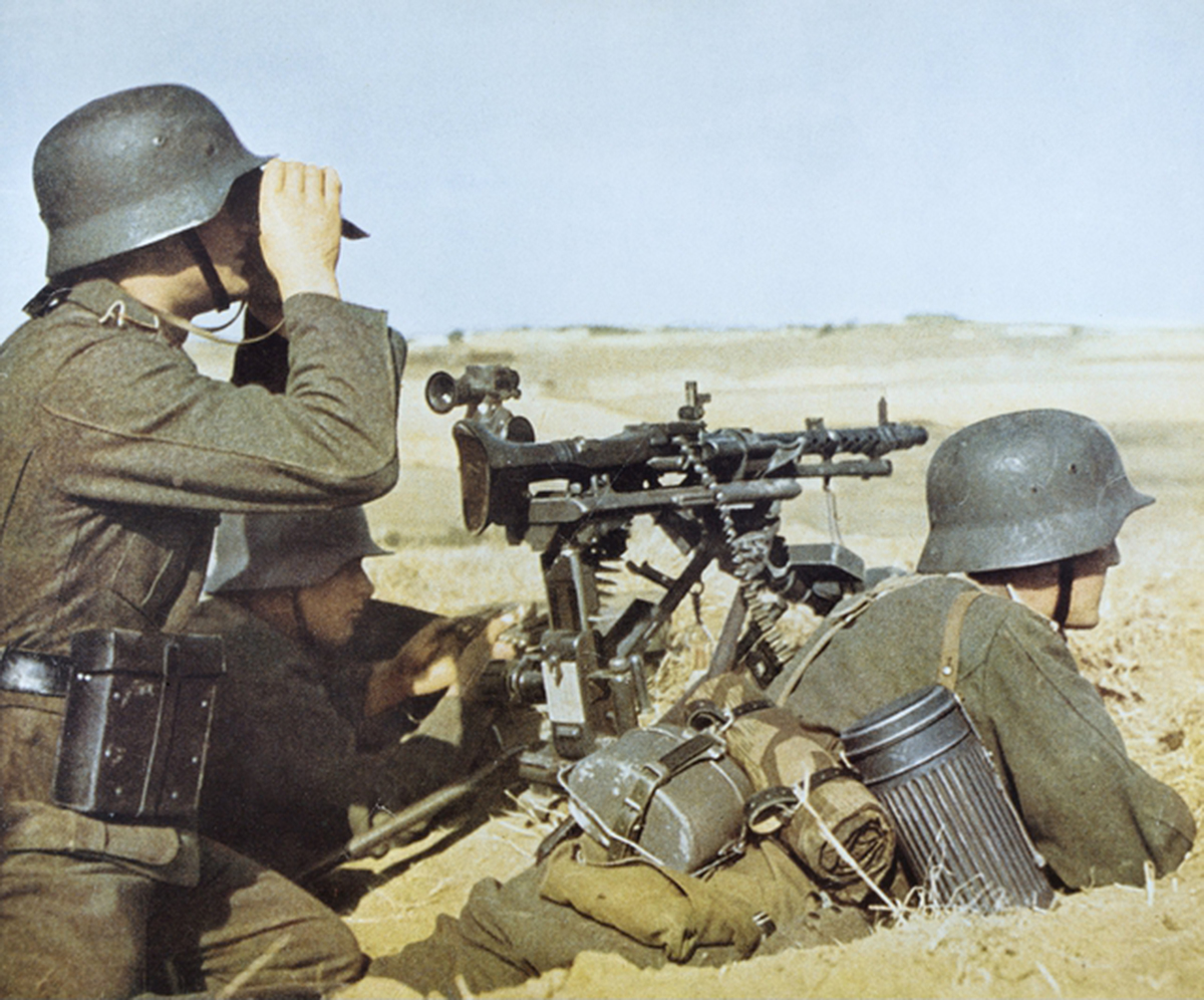 German soldiers with an MG 34 machine gun in Russia.